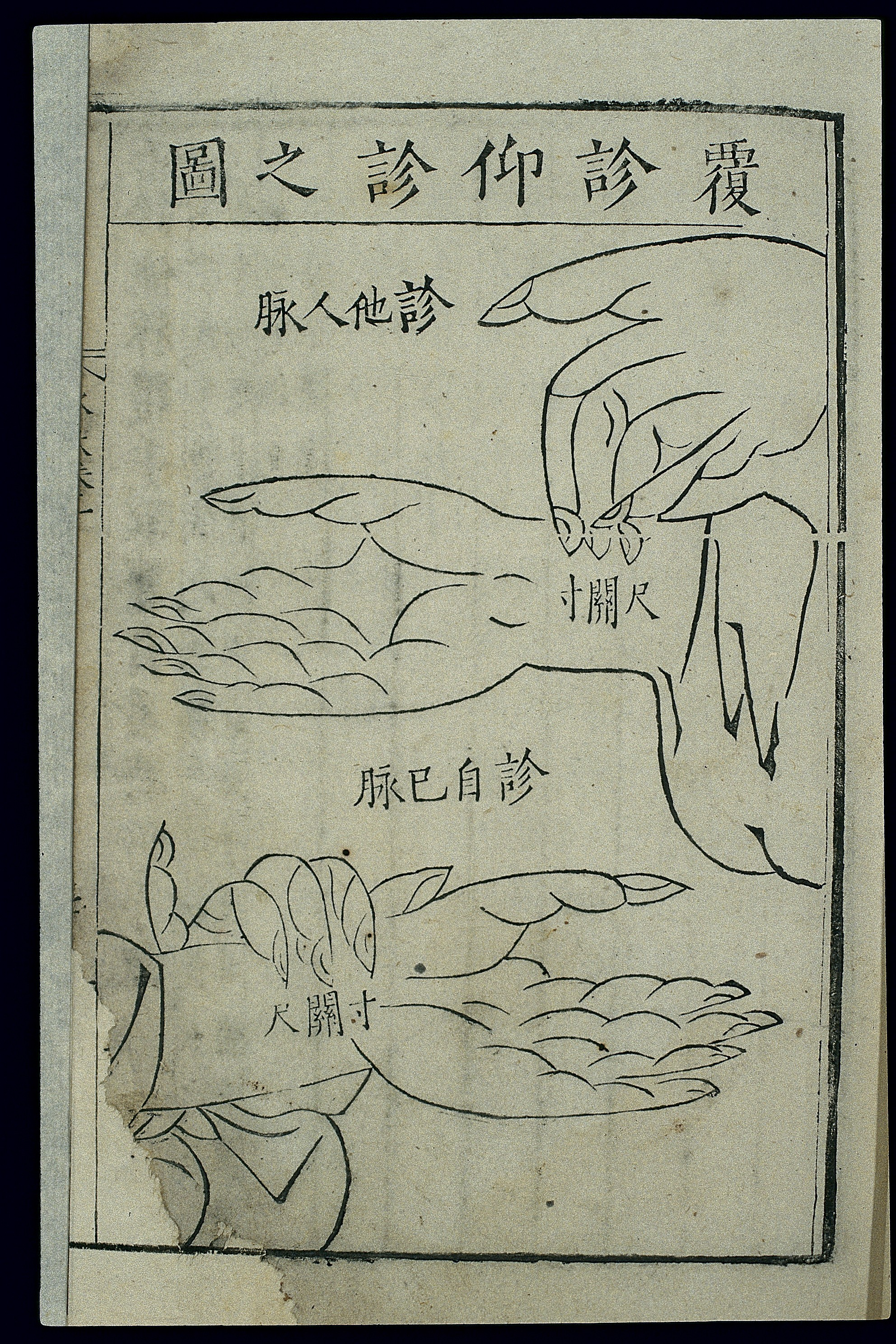 Woodcut illustration from an edition of 1554 (33rd year of the Jiajing reign period of the Ming dynasty). The images show the distinct techniques to be used for taking another person's pulse and taking one's own pulse. In taking someone else's pulse, the hand used to take the pulse is held palm downward so that the index finger, middle finger and ring finger are positioned on thecun(Inch),guan(Pass) andchi(Foot) pulse sectors of the wrist respectively. This is calledfuzhen('downturned diagnosis'). In taking one's own pulse, the same relationship between the fingers and the three pulse sectors is preserved by holding the hand palm upwards. This is calledyangzhen('upturned diagnosis'). Wellcome Images Keywords: Zhang Shixian (Ming period, 1368-1644); Pulse diagnosis; Medicine, Chinese Traditional; Pulse; Diagnostic Techniques and Procedures